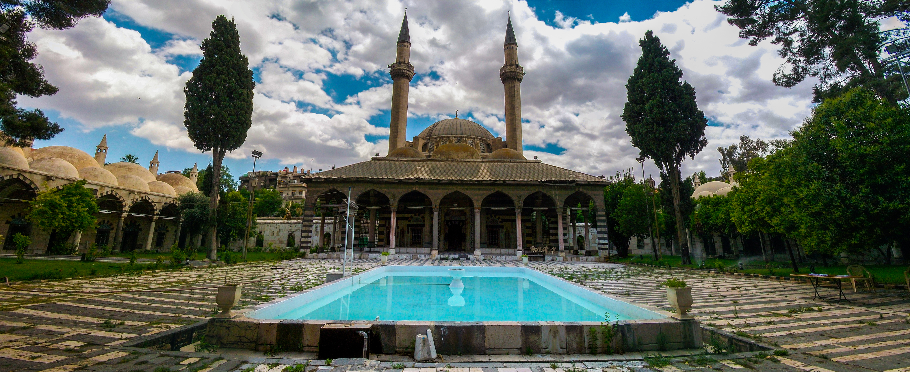 Panoramic Photo of the Takiyya as-Süleimaniyya Mosque in Damascus, Syria. Constructed by Sultan Süleiman the Magnificent after he was crowned Sultan